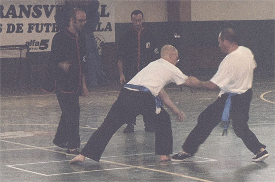 Tui Shou